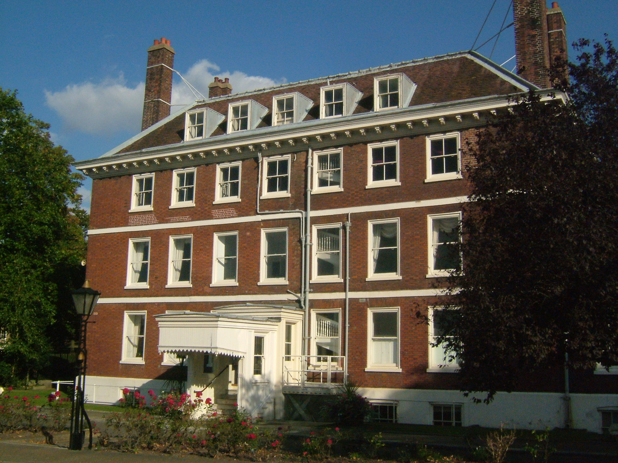 Chatham Dockyard, Kent,England has the finest collection of 18th and 19th century naval dockyard buildings many of which are scheduled as ancient monuments. The Commisssioner's House. It was built for Captain George St Lo, and is the oldest surviving naval building in England.